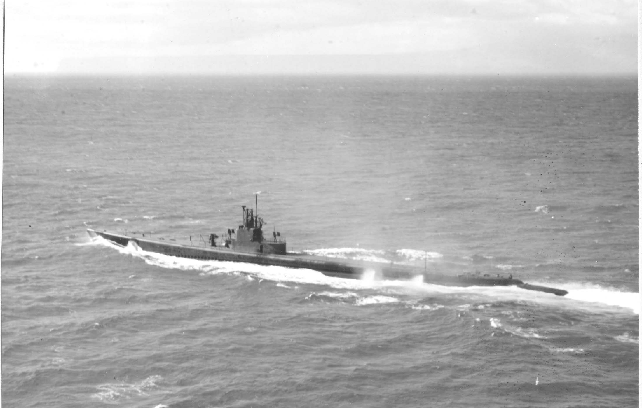 USS Muskallunge; Muskallunge (SS-262) port side view underway, off Pearl Harbor 4 Sept. 1943. She cleared Pearl Harbor 7 September for her first war patrol, taking station off the Palau Islands. Muskallunge carried the first electric torpedoes to be fired in the war by an American submarine. (DANFS). US Navy photo from NARA # 80-G-276699, courtesy of Daniel Dunham.